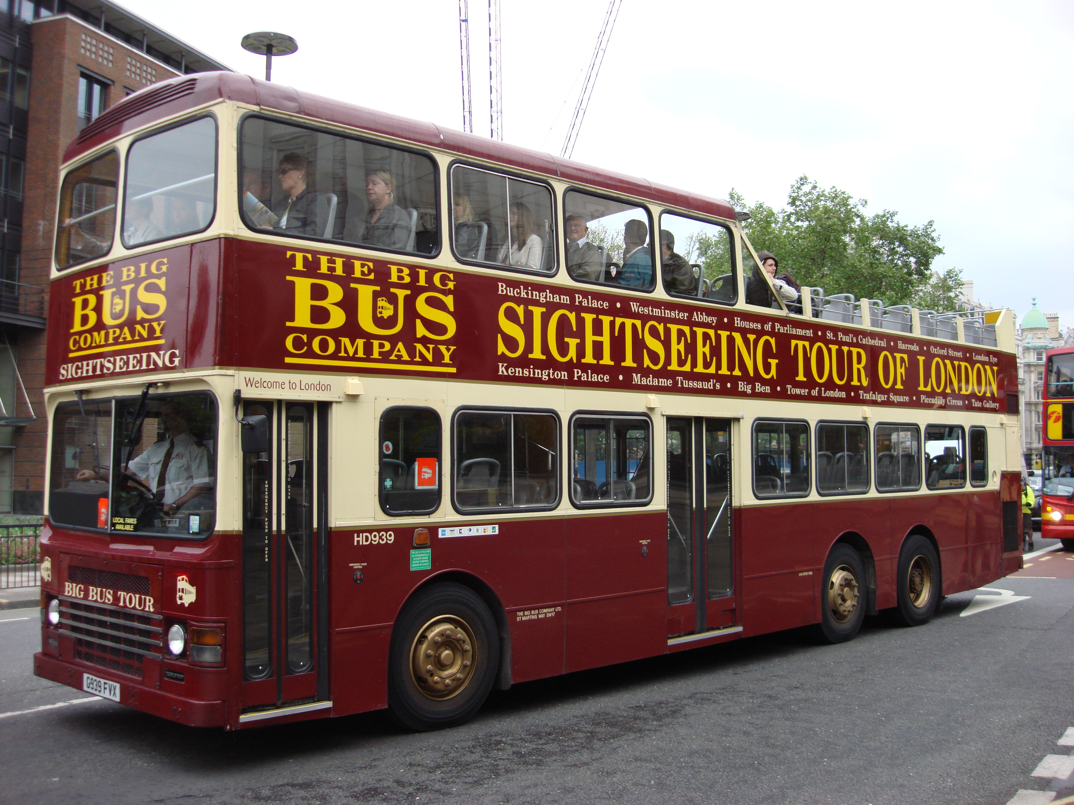 The Big Bus Company bus HD939 (reg. G939 FVX), a 1989 Dennis Condor double-decker with Duple Metsec W bodywork, pictured at Cannon Street in the City of London operating one of the company's sightseeing tours. It's a high capacity tri-axle 12m long bus, delivered new to Hong Kong operator China Motor Bus as their fleet no. DL16 (reg. EG 857). See Second-hand Hong Kong tri-axle buses imported to the United Kingdom for a full vehicle history.